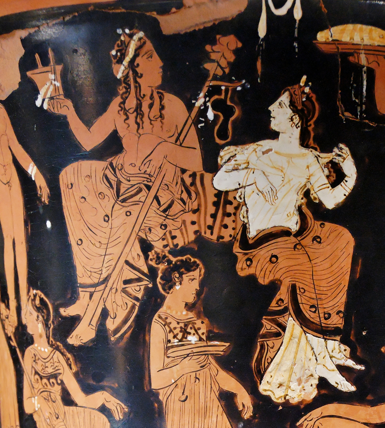 Dionysos and Ariadne. Detail from the side A of an Attic red-figure calyx-krater, ca. 400-375 BC. From Thebes.